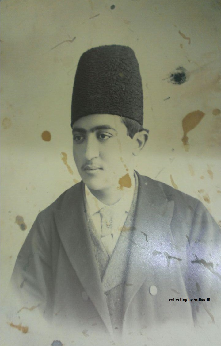 عزیزخان ندائی (خواجه)